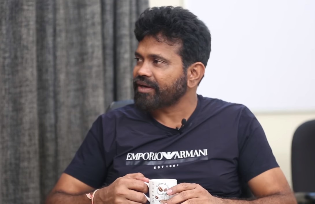 Indian filmmaker Sukumar in an interview with Film Companion South in April 2018